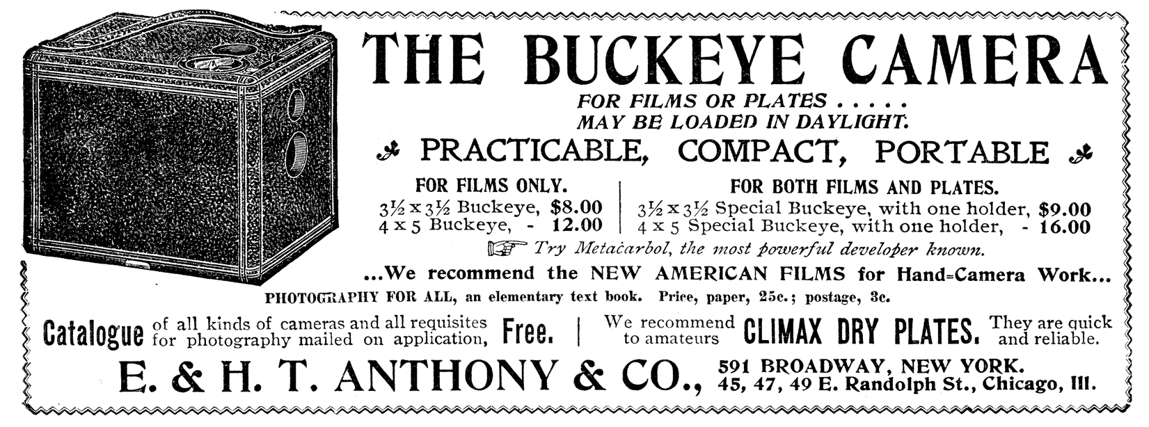 Advertisement for the "Buckeye" Camera by the E. & H.T. Anthony & Company, 591 Broadway, New York, NY.